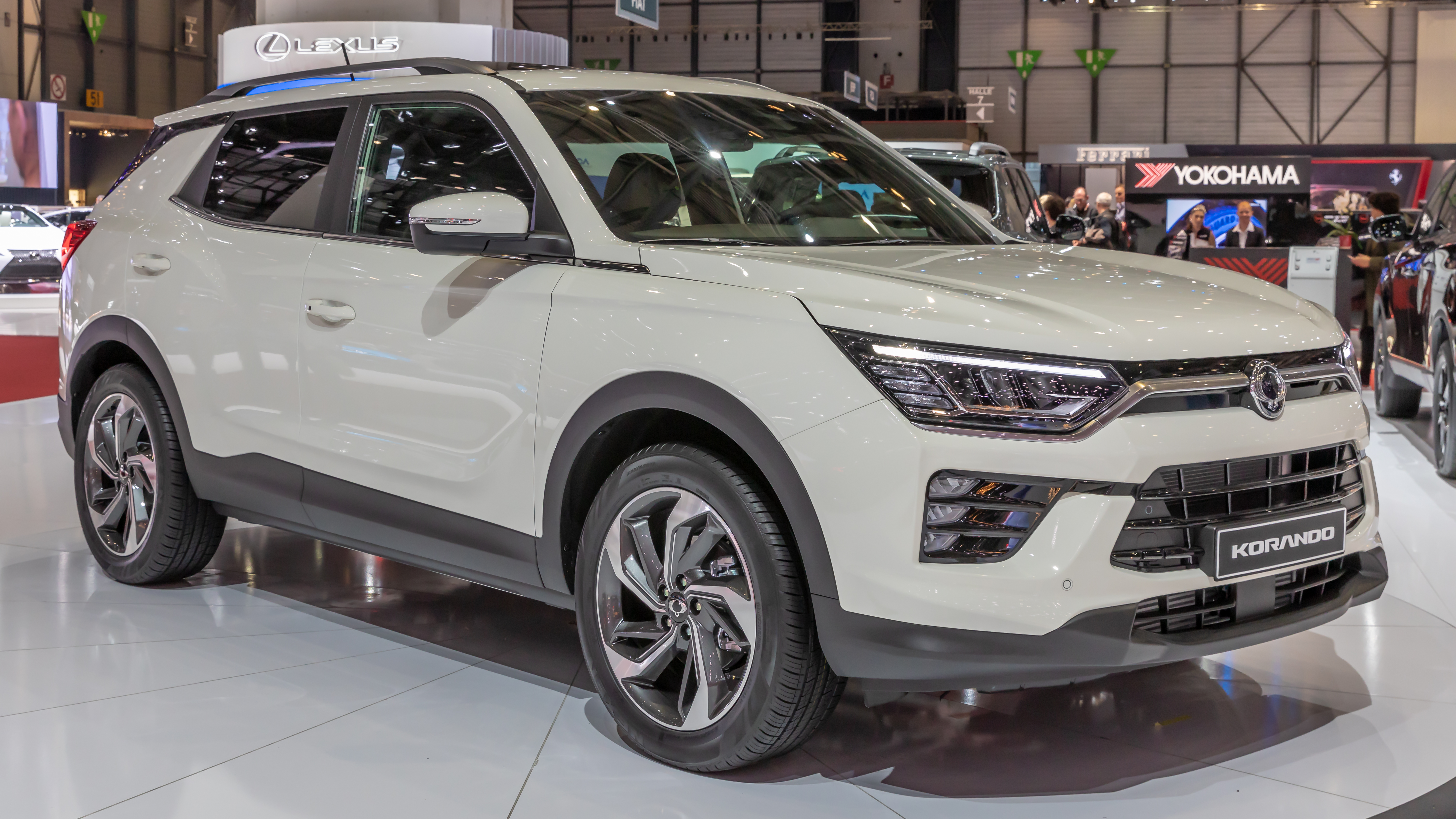 SsangYong Korando at Geneva International Motor Show 2019, Le Grand-Saconnex